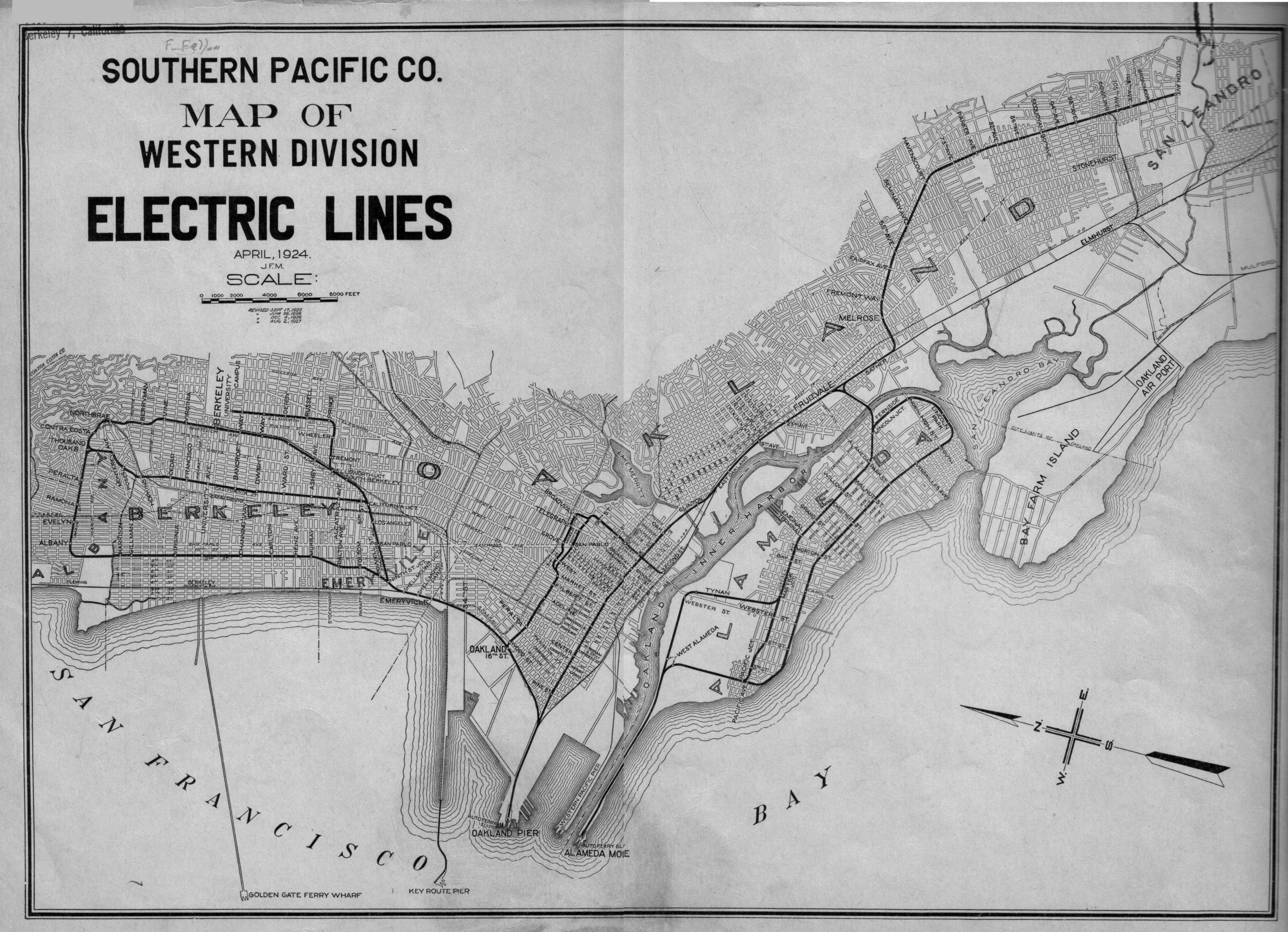 Map of the Southern Pacific Railroad's East Bay Electric Lines, created in April 1924 and updated to August 1927